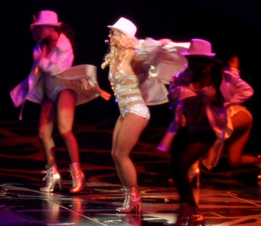 Spears